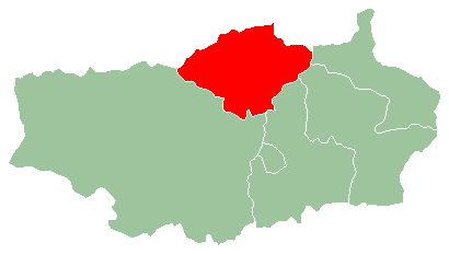 Location map of Faratsiho District in Vakinankaratra Region.